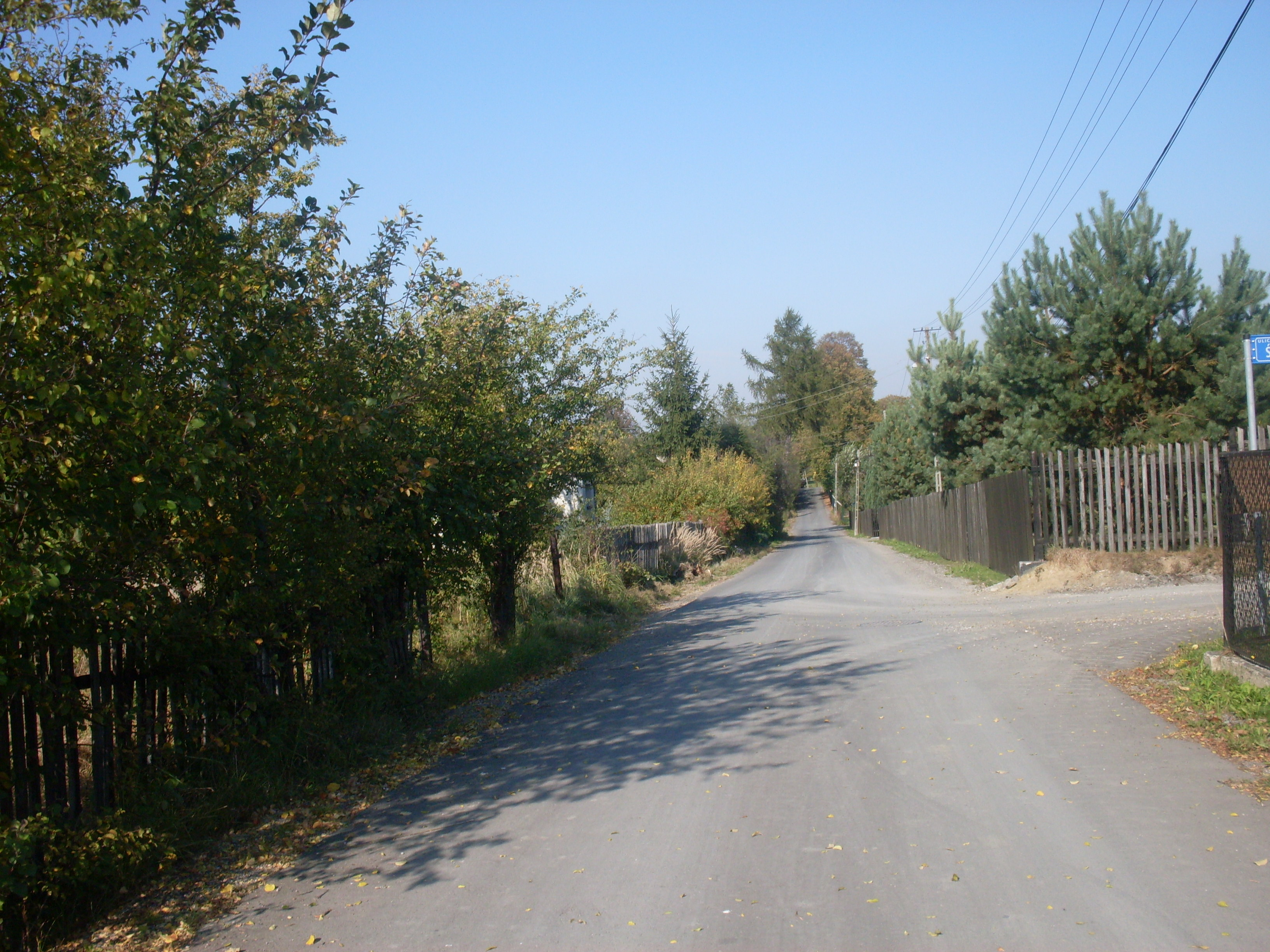 Tenczynek. Podlesie. Chłopickiego Street